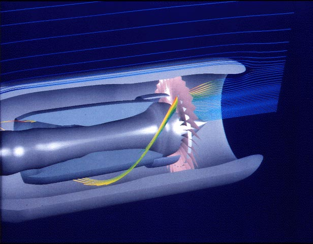 Turbofan Engine simulation from